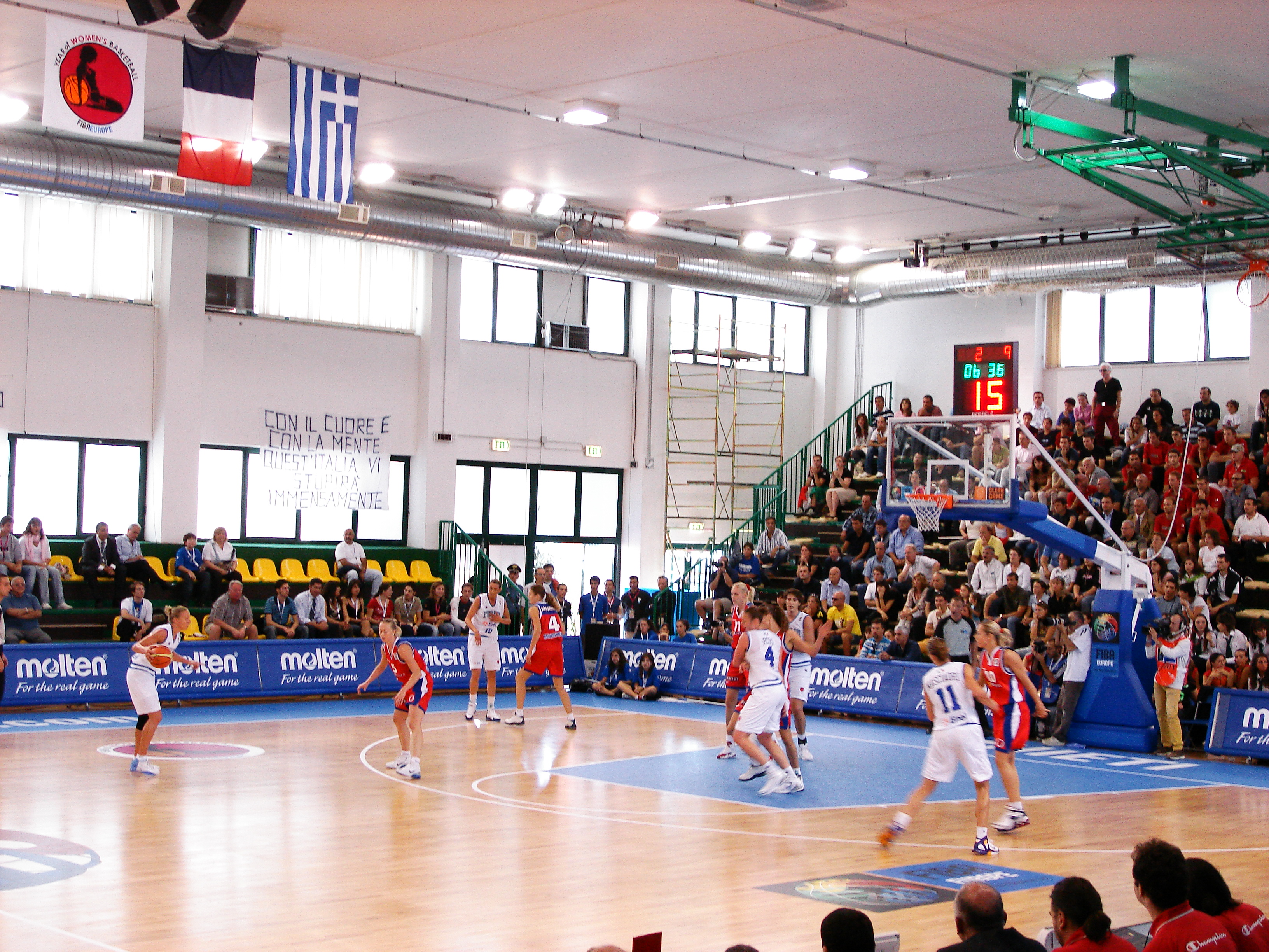 FIBA EuroBasket Women 2007 - Italy vs. Russia